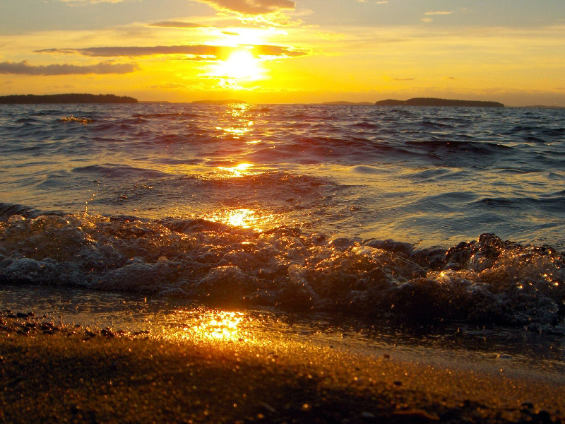 Lake Saimaa, Finland, at the sunset image taken by user:Tuohirulla